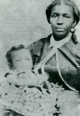 WEB Du Bois as an infant (with his mother, Sylvina Burghardt Du Bois).